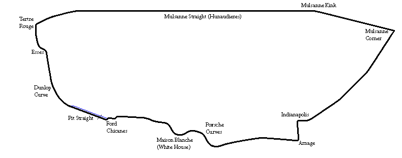 The Circuit de la Sarthe in Le Mans, France from 1979-1985.